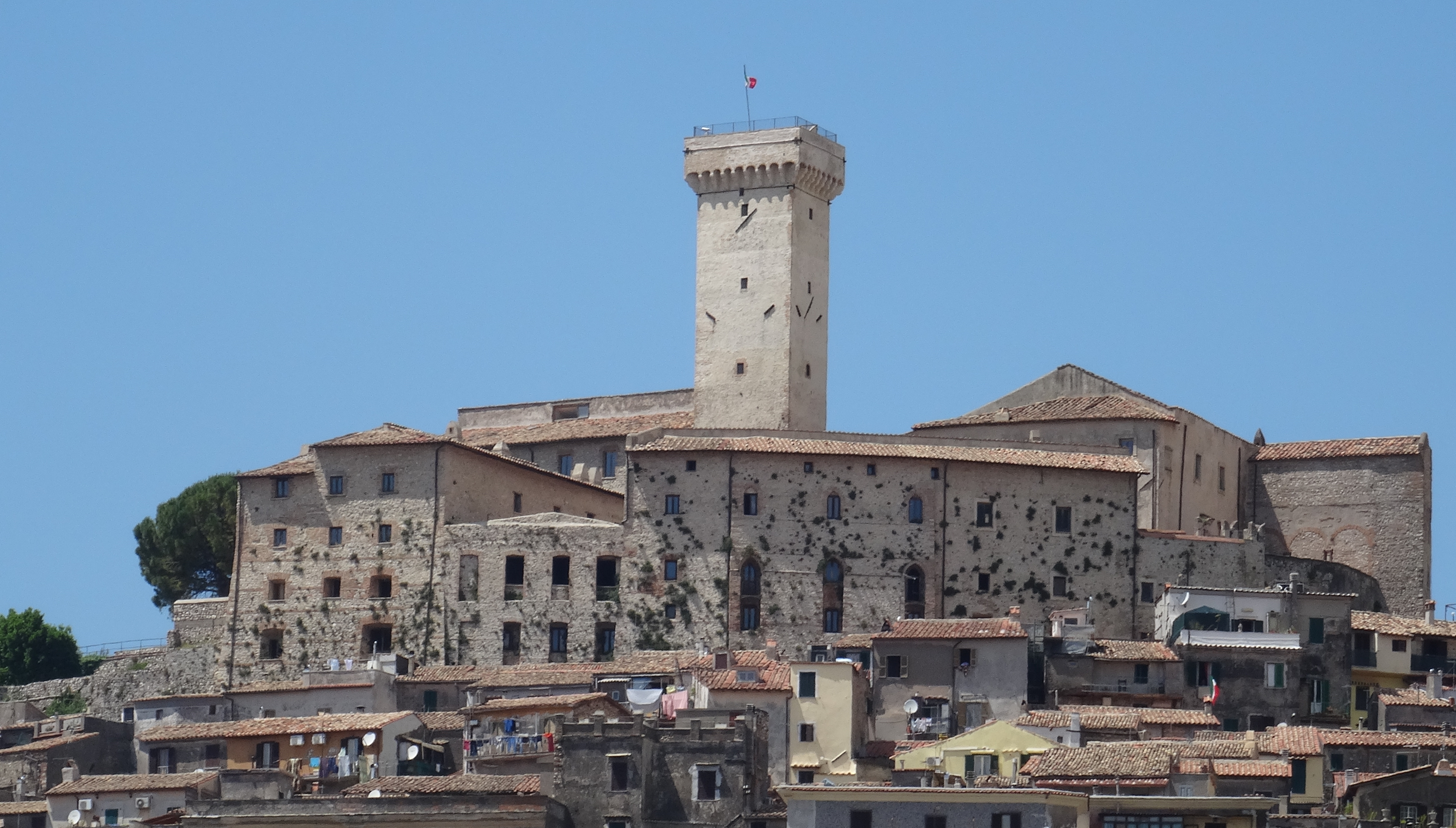 Castello Savelli Torlonia